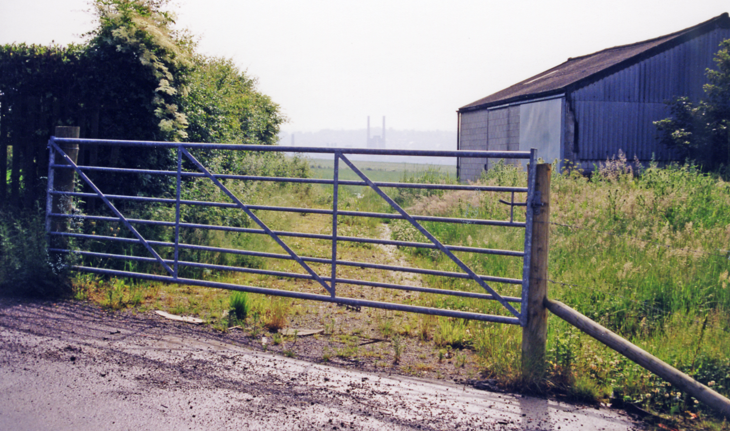 Site of Grassmoor station, 1998. View westward from off the A617 towards Wingerworth: the ex-GCR Chesterfield Loop, off the GC Nottingham - Sheffield main line, had run parallel to the A617 here until closed 17/6/93, but Grassmoor station had been closed since 28/10/40.